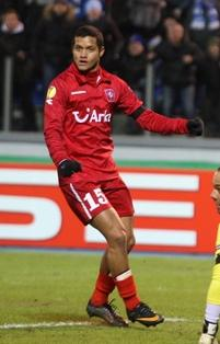 FC Twente player Roberto Rosales